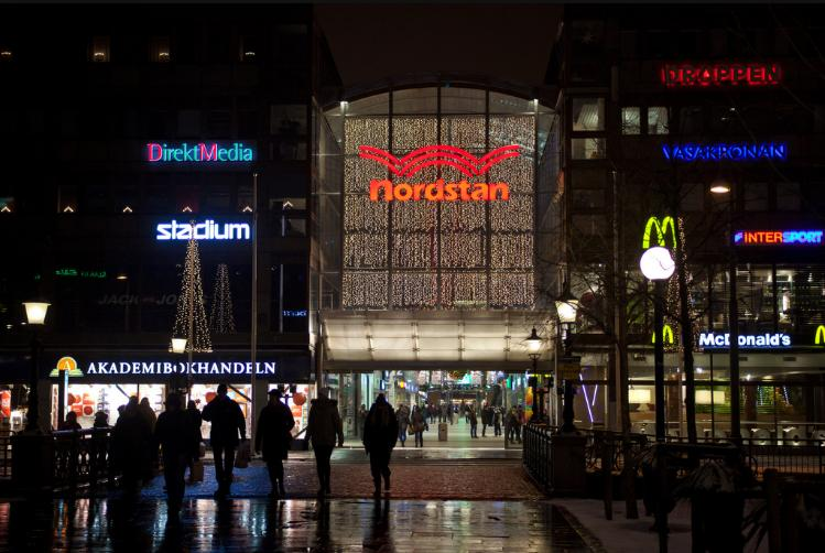 Nordstan Shopping Center in Gothenburg, Sweden